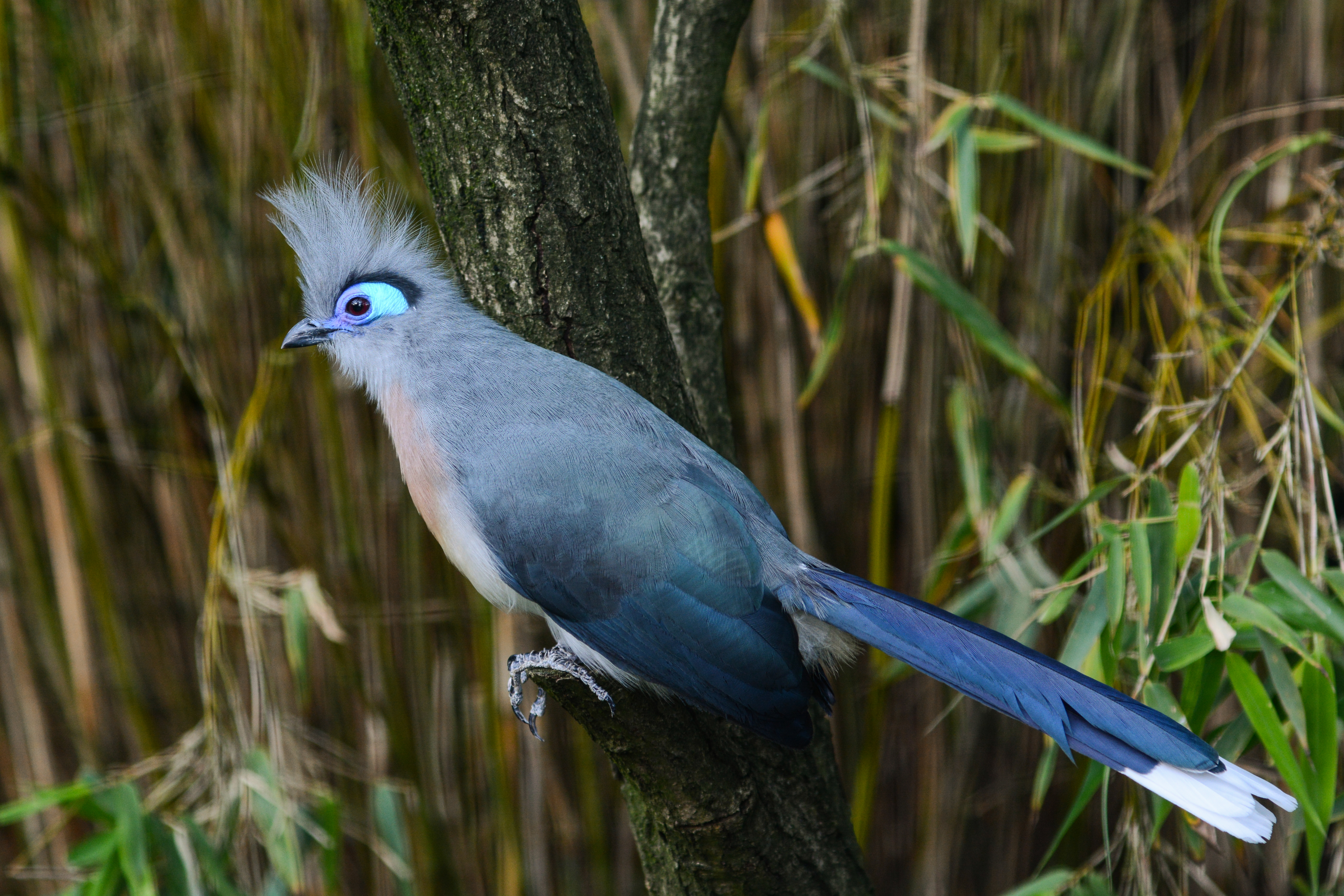 Crested Coua (Coua cristata) at Weltvogelpark Walsrode (Walsrode Bird Park, Germany)